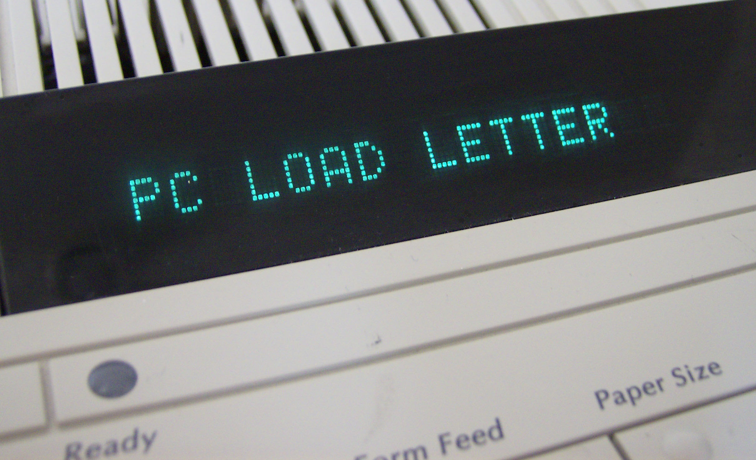 Self-taken photo on April 23, 2007. "PC Load Letter" error message on a HP LaserJet 4.